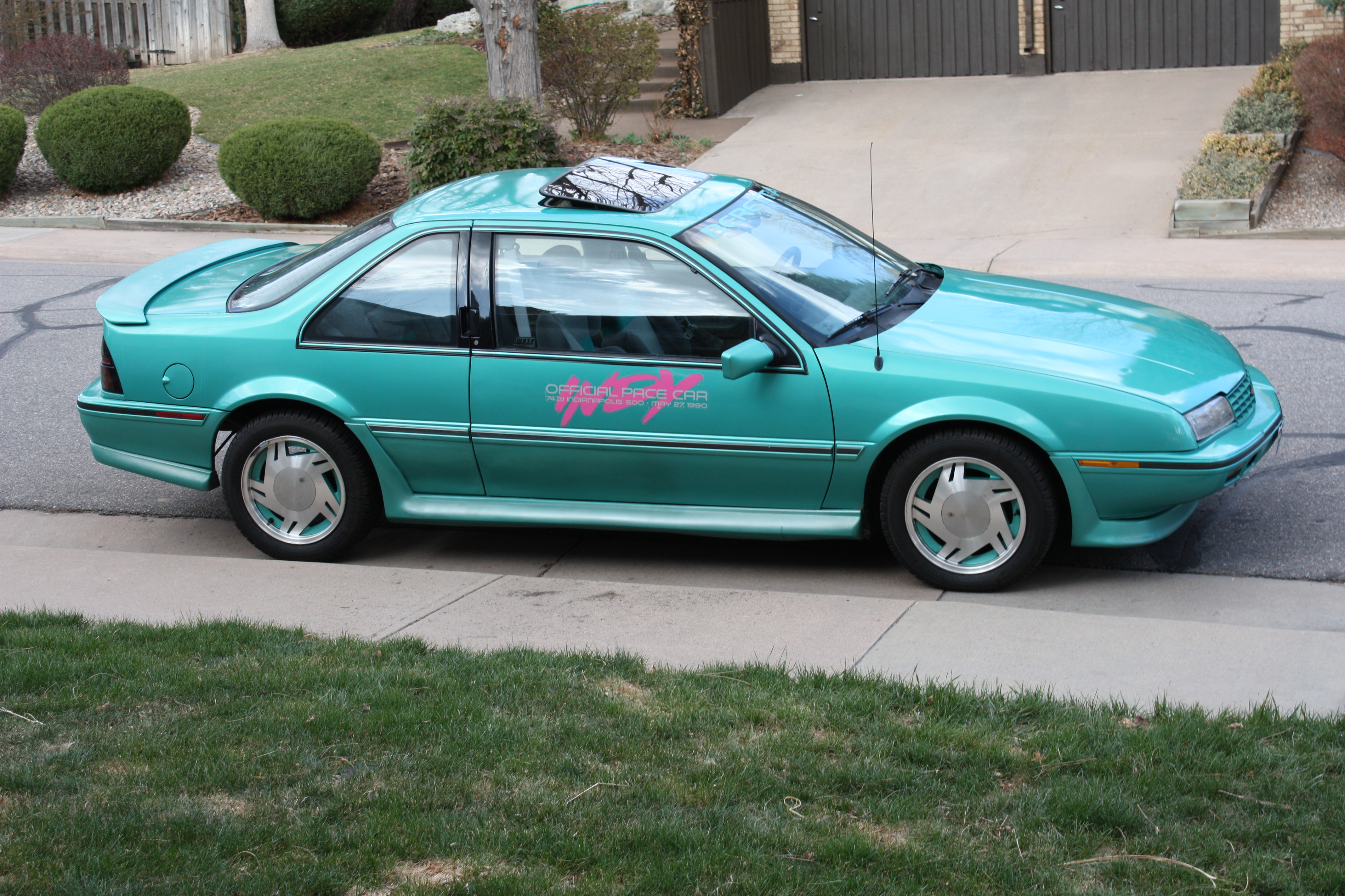 1990 Chevy Beretta Indy Pace Car replica.